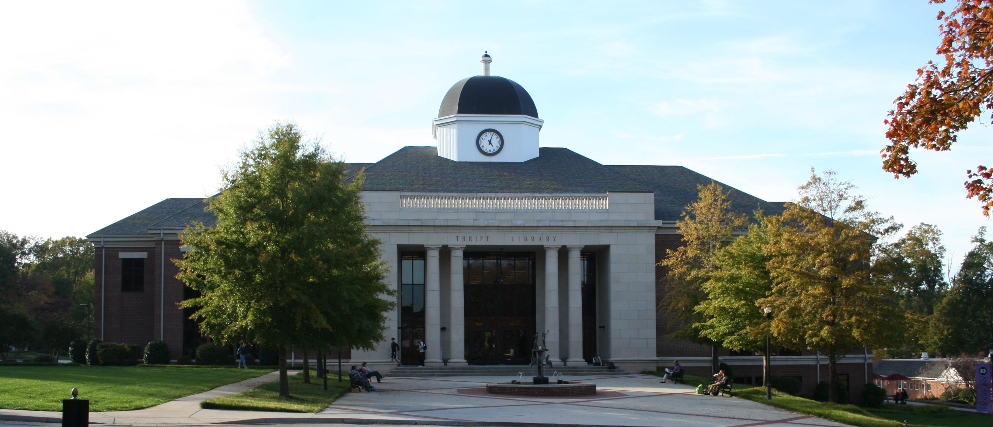 Thrift Library at Anderson in late summer